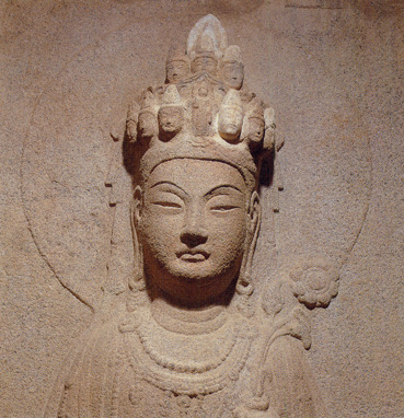 Avalokitesvara sculptor, Seokuram in Korea